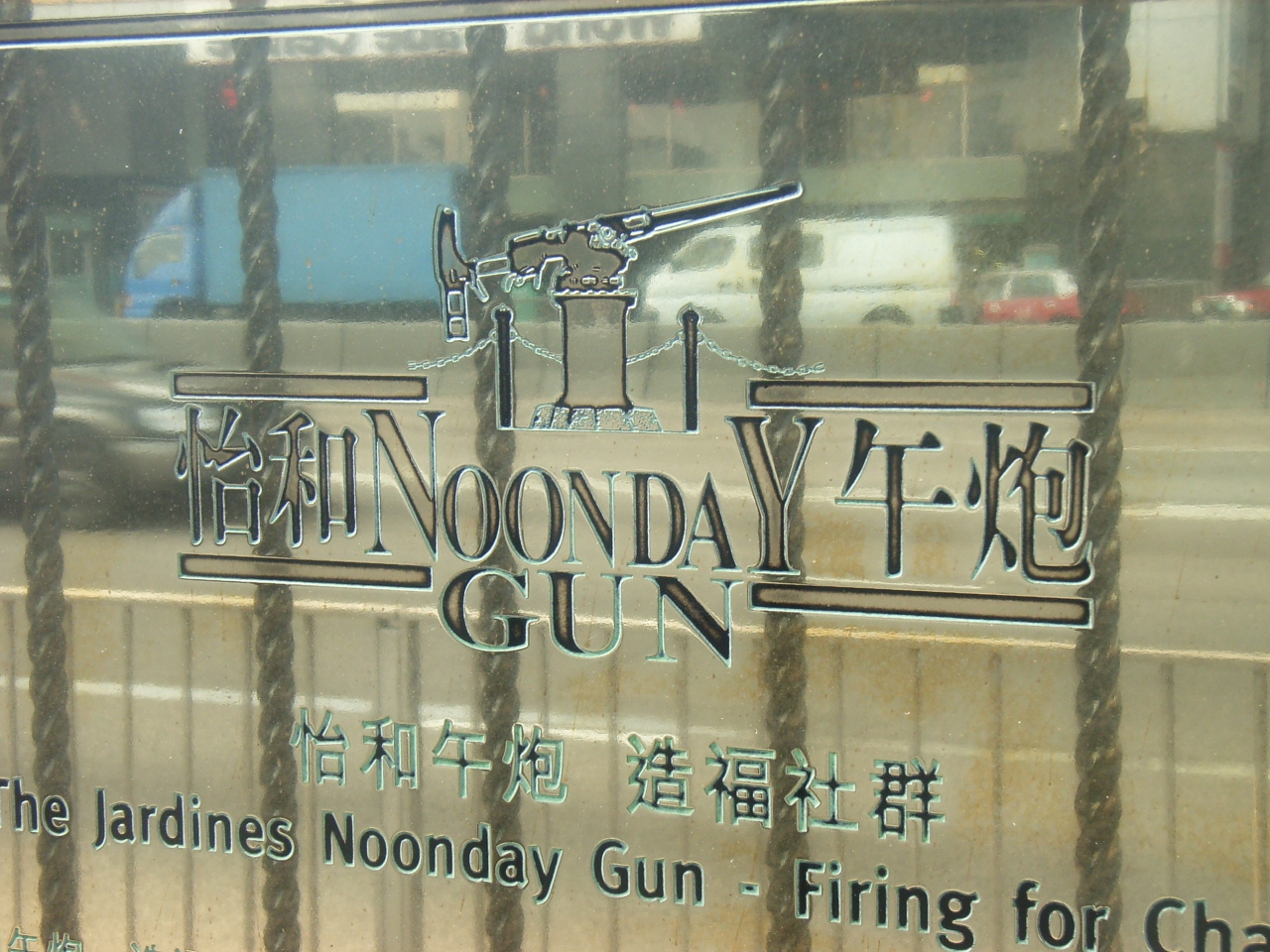 怡和午炮 Noon-day Gun User:Sun Victoria